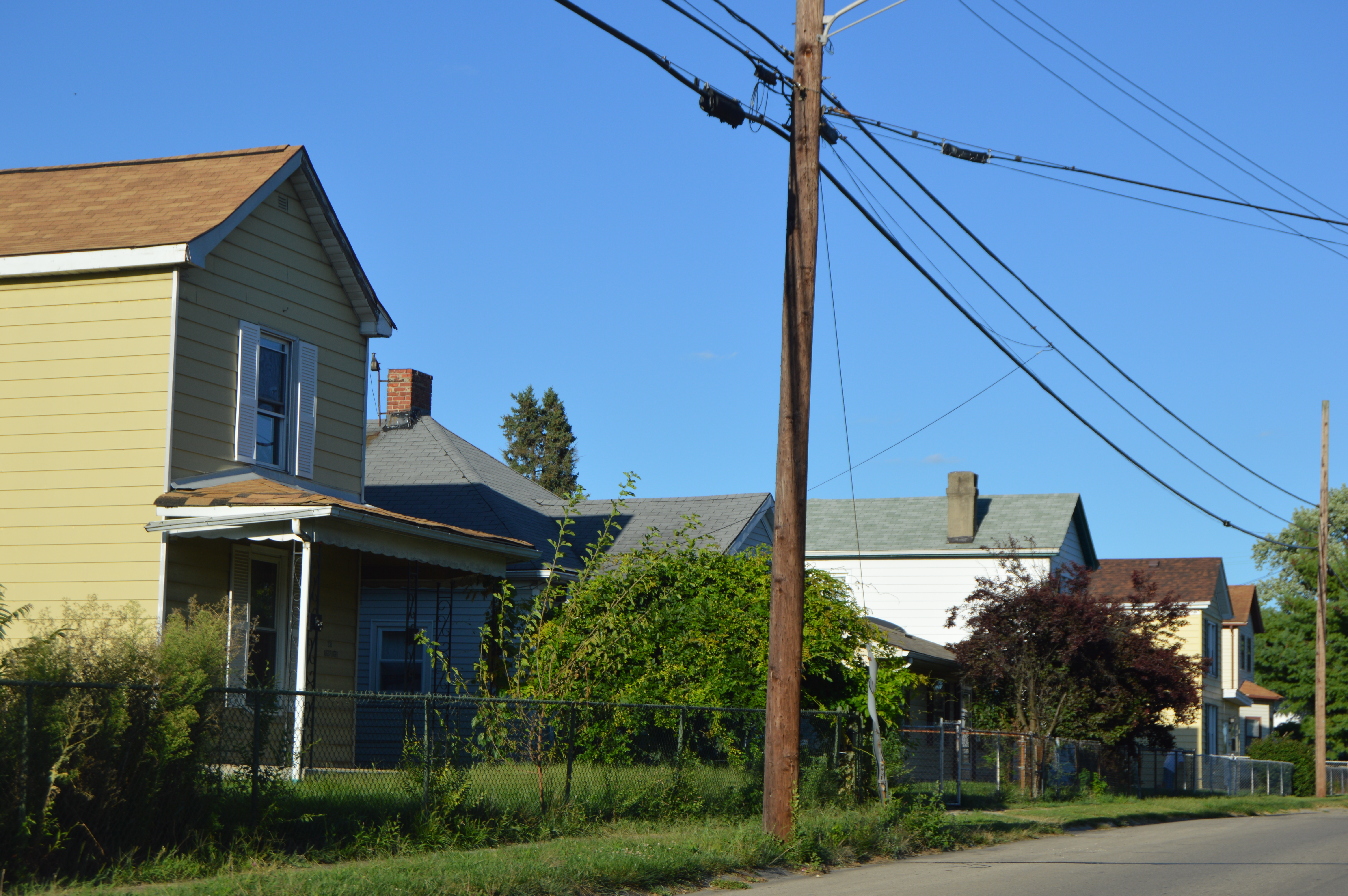 Houses on the northern side of Augspurger Avenue at the Highland Avenue intersection in New Miami, Ohio, United States.